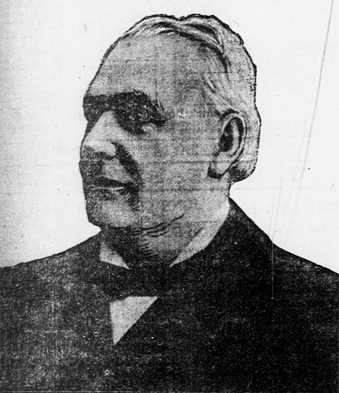 Henry Ziegenhein depicted in a newspaper